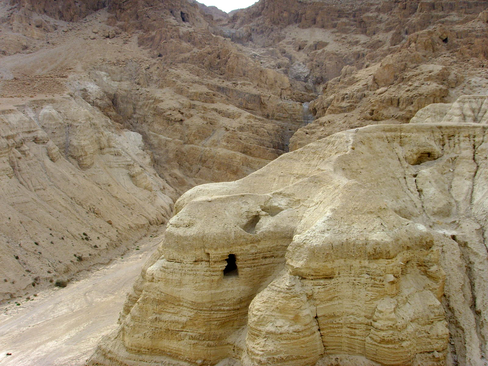 Qumran in the West Bank, Middle East. In this cave the Dead Sea Scrolls were found. In dieser Höhle in Qumran wurden die Schriftrollen gefunden.